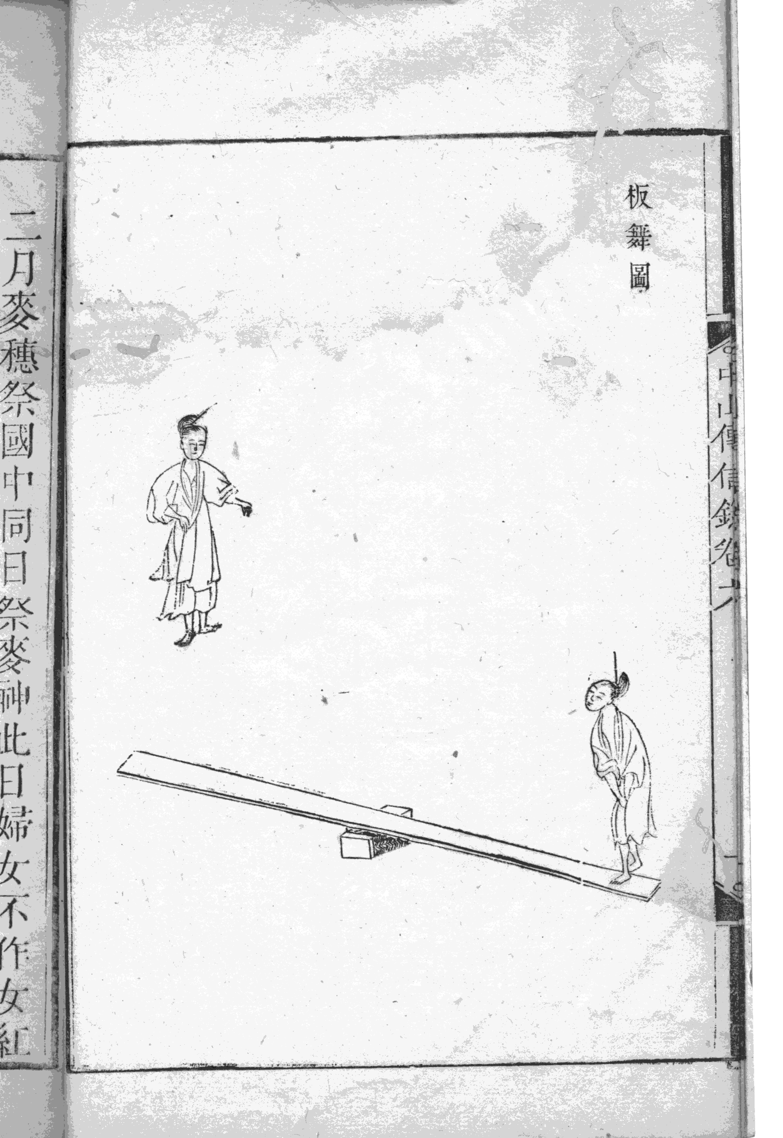 板舞圖(A kind of ancient Ryukyuan dance)